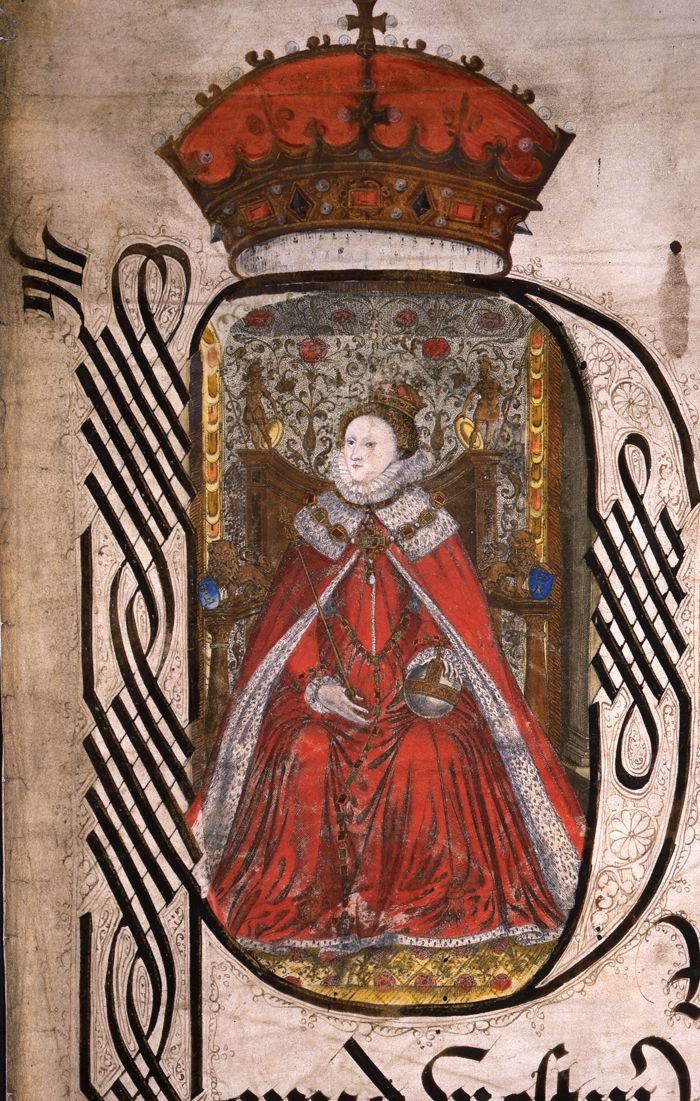 Coram Rege Roll of Elizabeth I. The roll records court proceedings that were supposed to be carried out before the king in person (coram rege), although that was rarely true. The rolls often include a portrait of the monarch as if to suggest this presence. This image is from the collections of The National Archives. Image no.115318 .